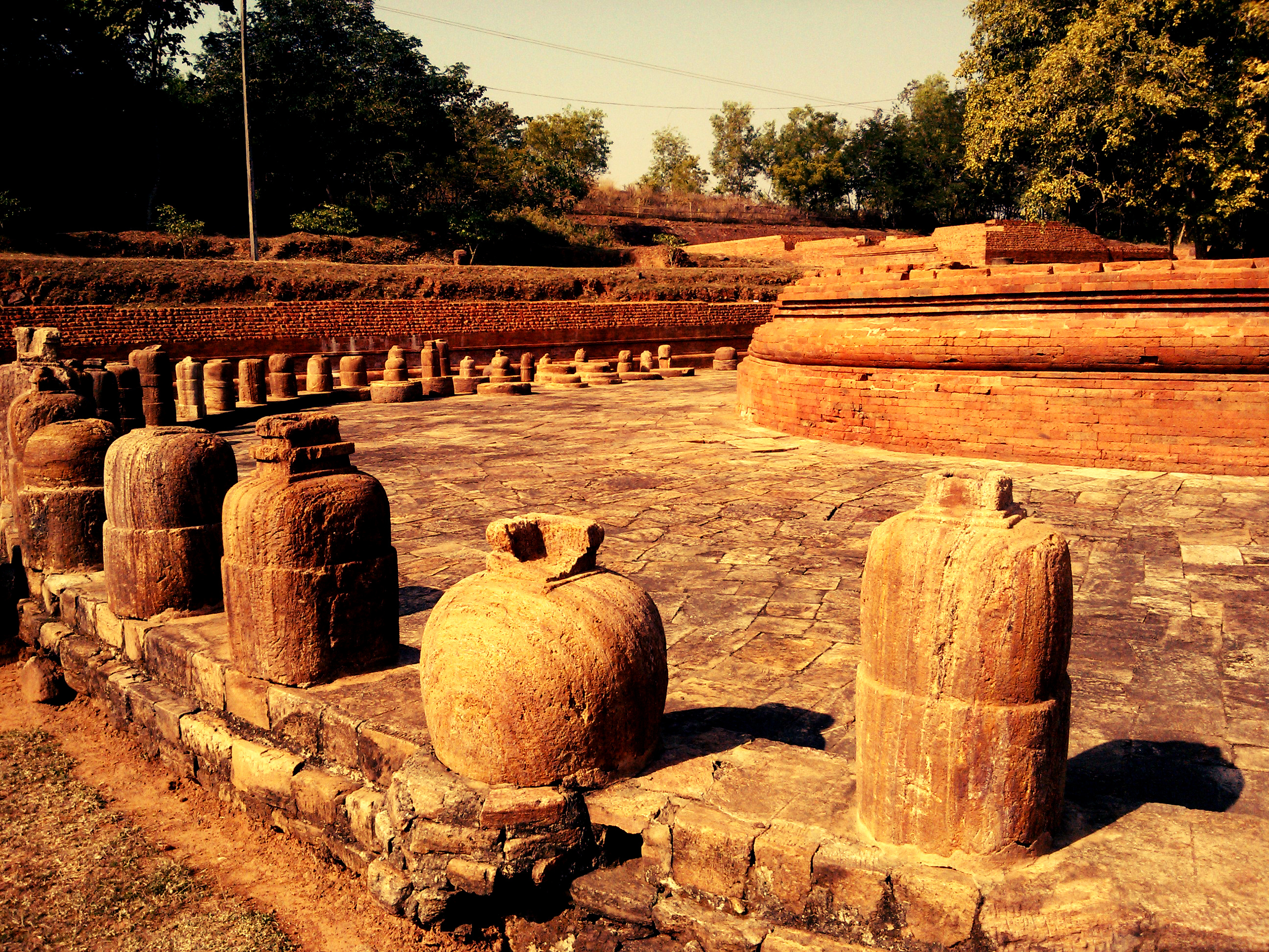 Collection of smaller structures arranged in circular fashion